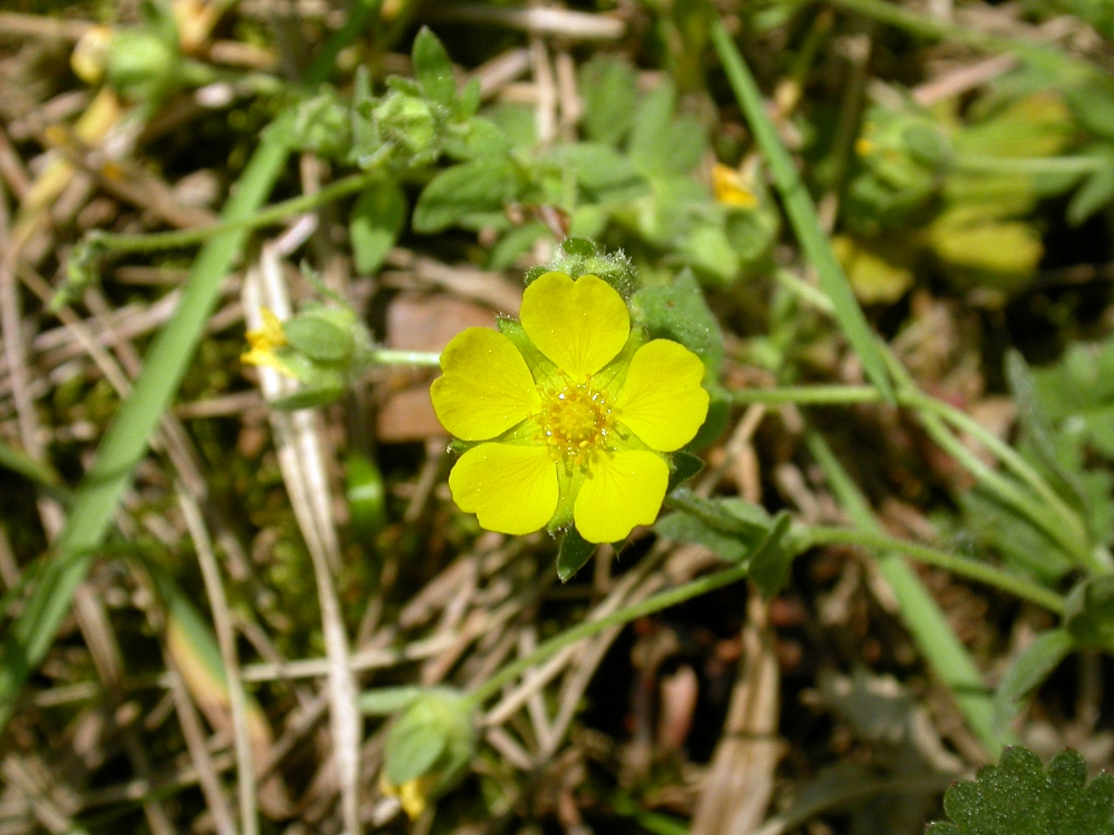 Potentilla reptans, Darmstadt, Hesse, Germany